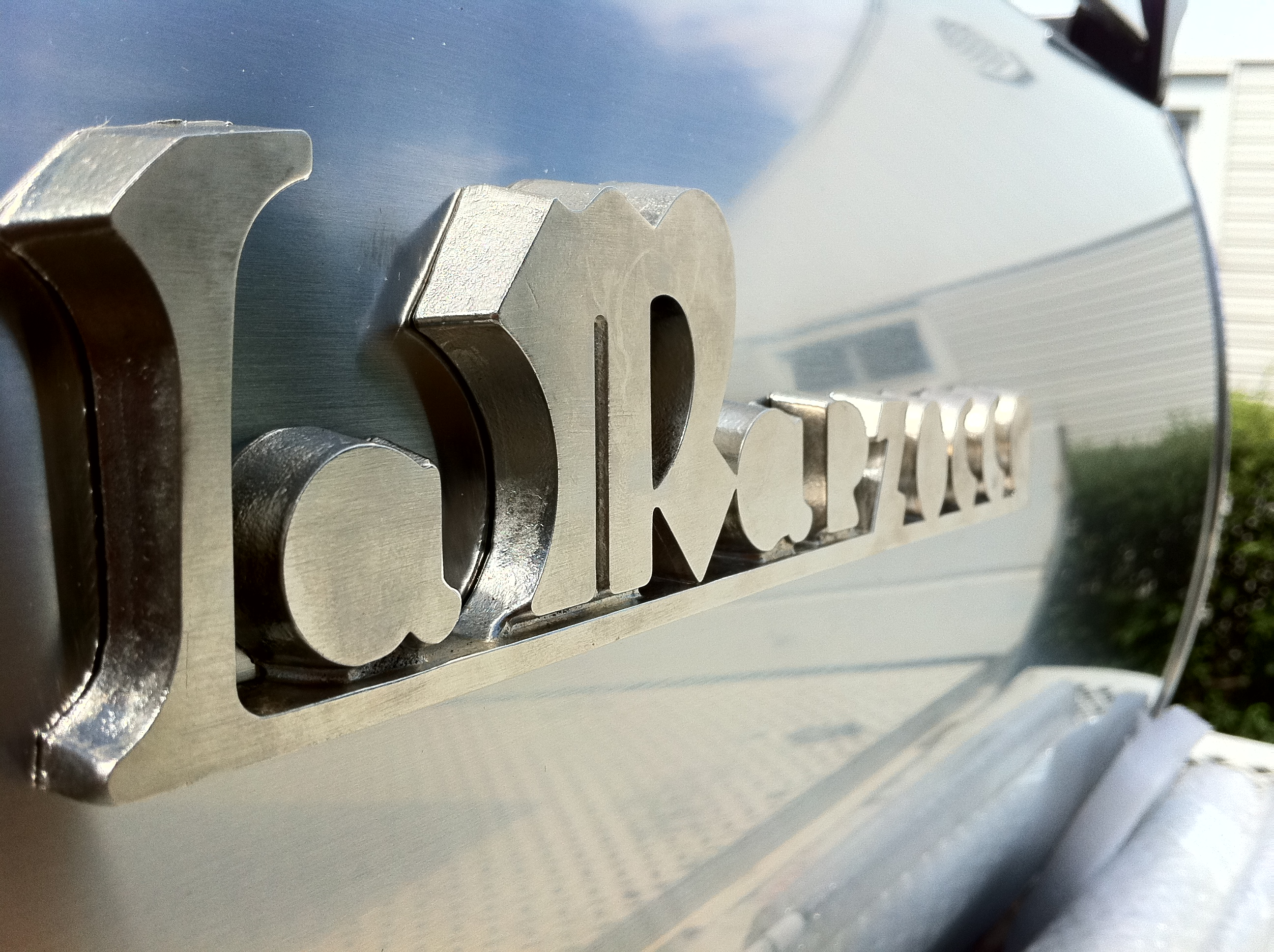 This is the emblem on the back of a La Marzocco GB5 espresso machine.